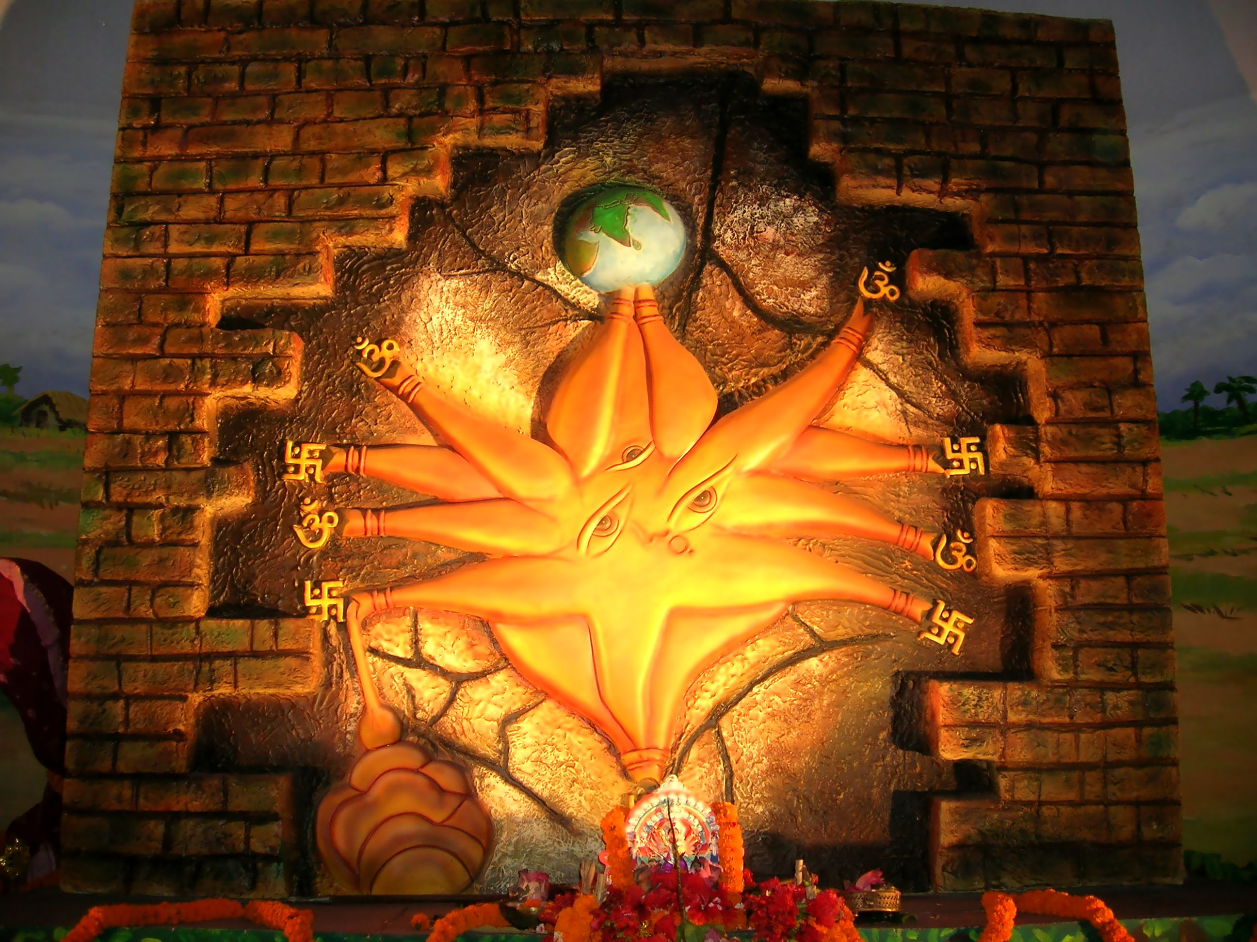 "Unnato Manobik Prithibi" (Developed Humane Earth) sculpture designed by Mamata Banerjee, Railway Minister of India and local MP at Bakul Bagan Sarbojanin, South Kolkata, 2010.